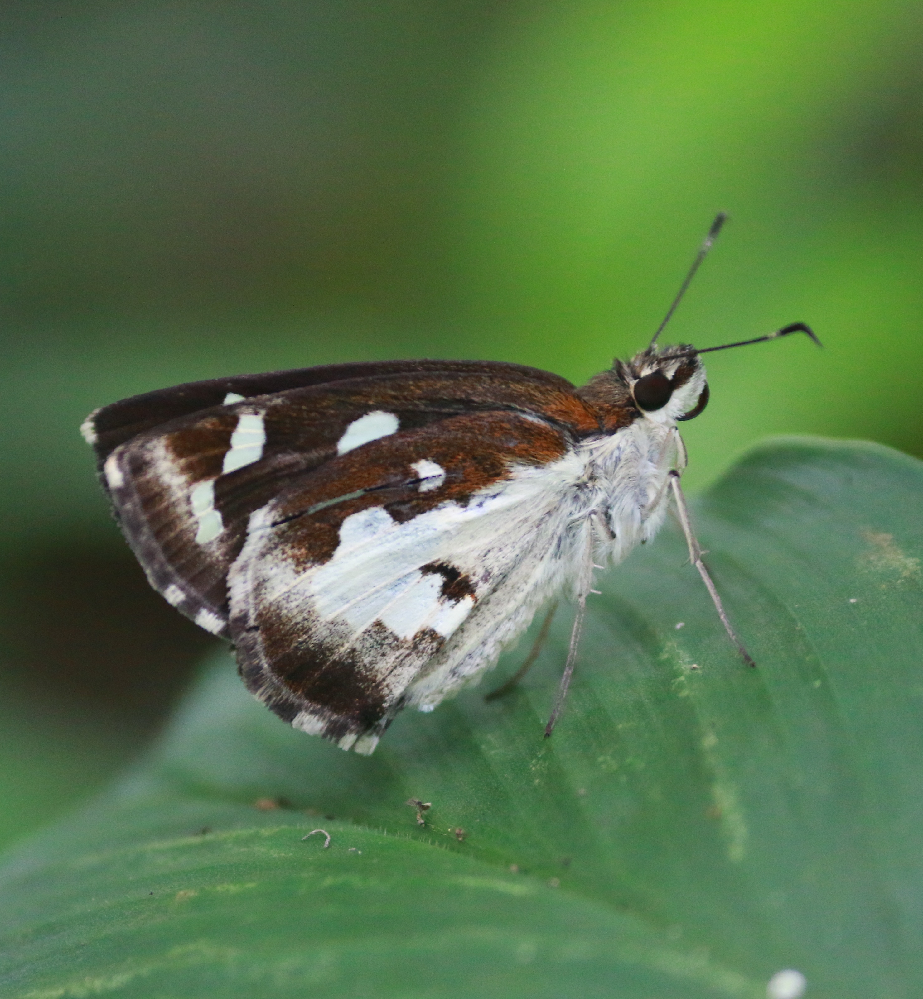 Udaspes folus, the grass demon